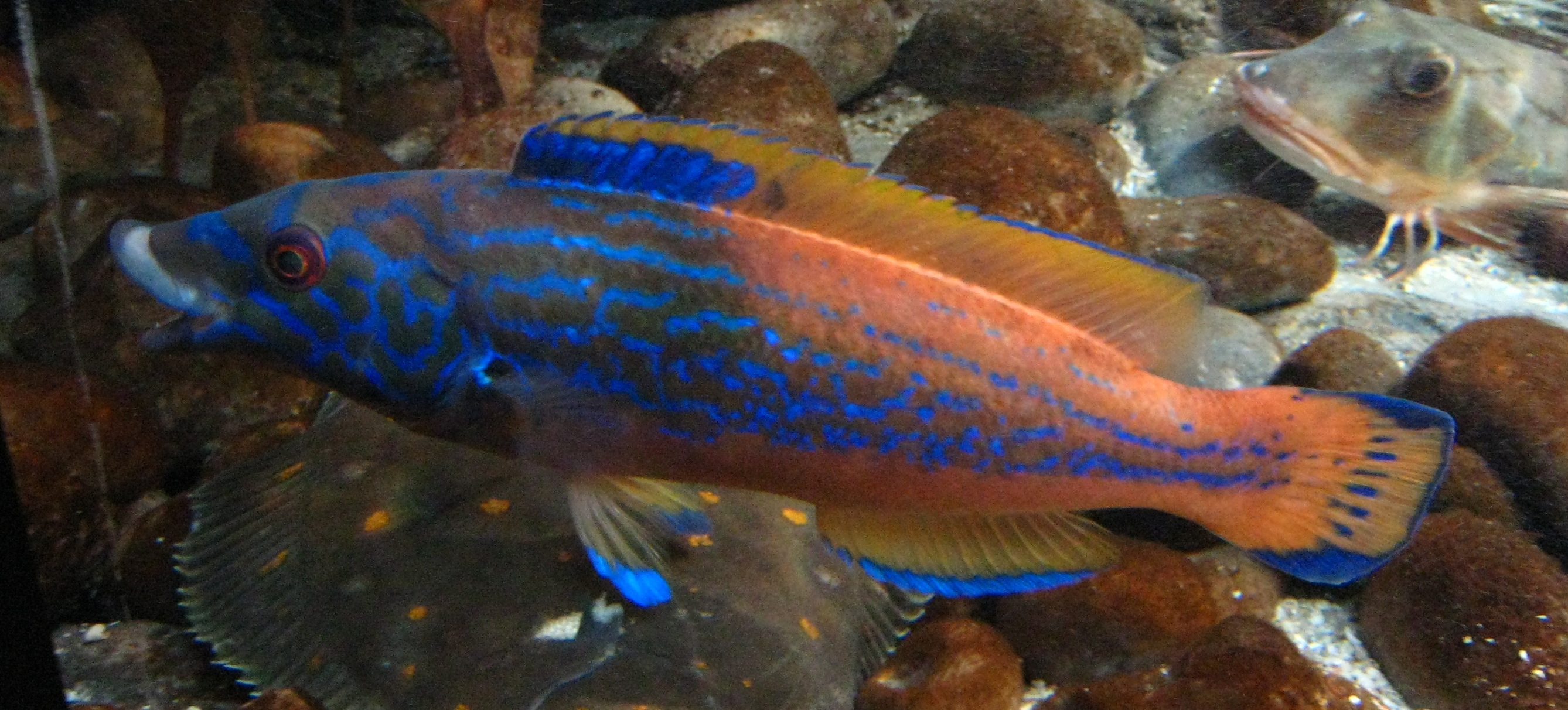 Labrus mixtus at Nausicaä, Centre National de la Mer. Chelidonichthys lucernus in the background.